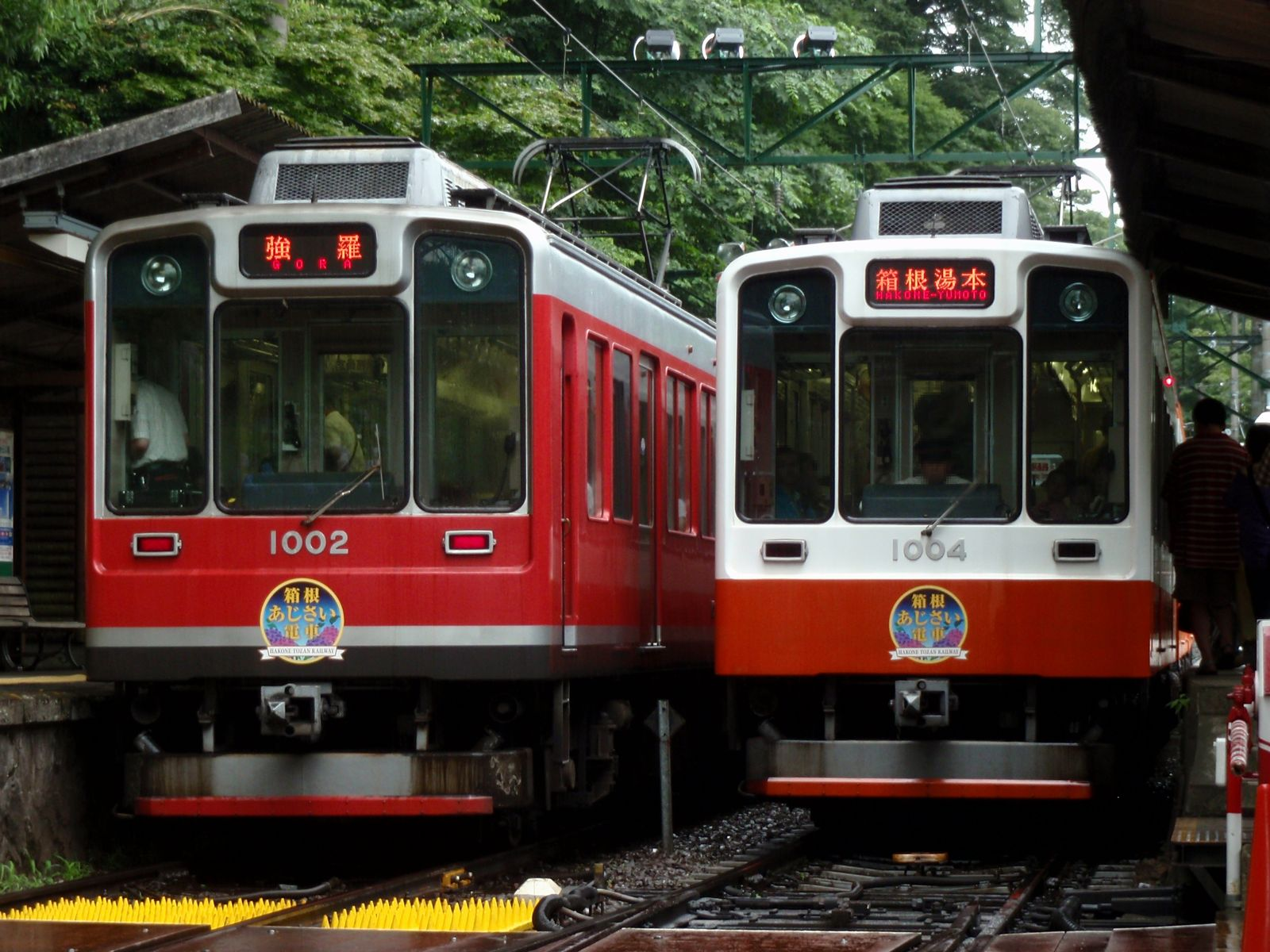 Hakone Tozan Railway Type 1000"Bernina" No.1002 and No.1004.